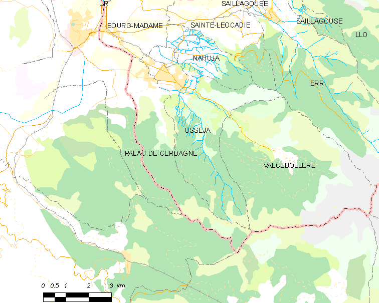 Map of French municipality